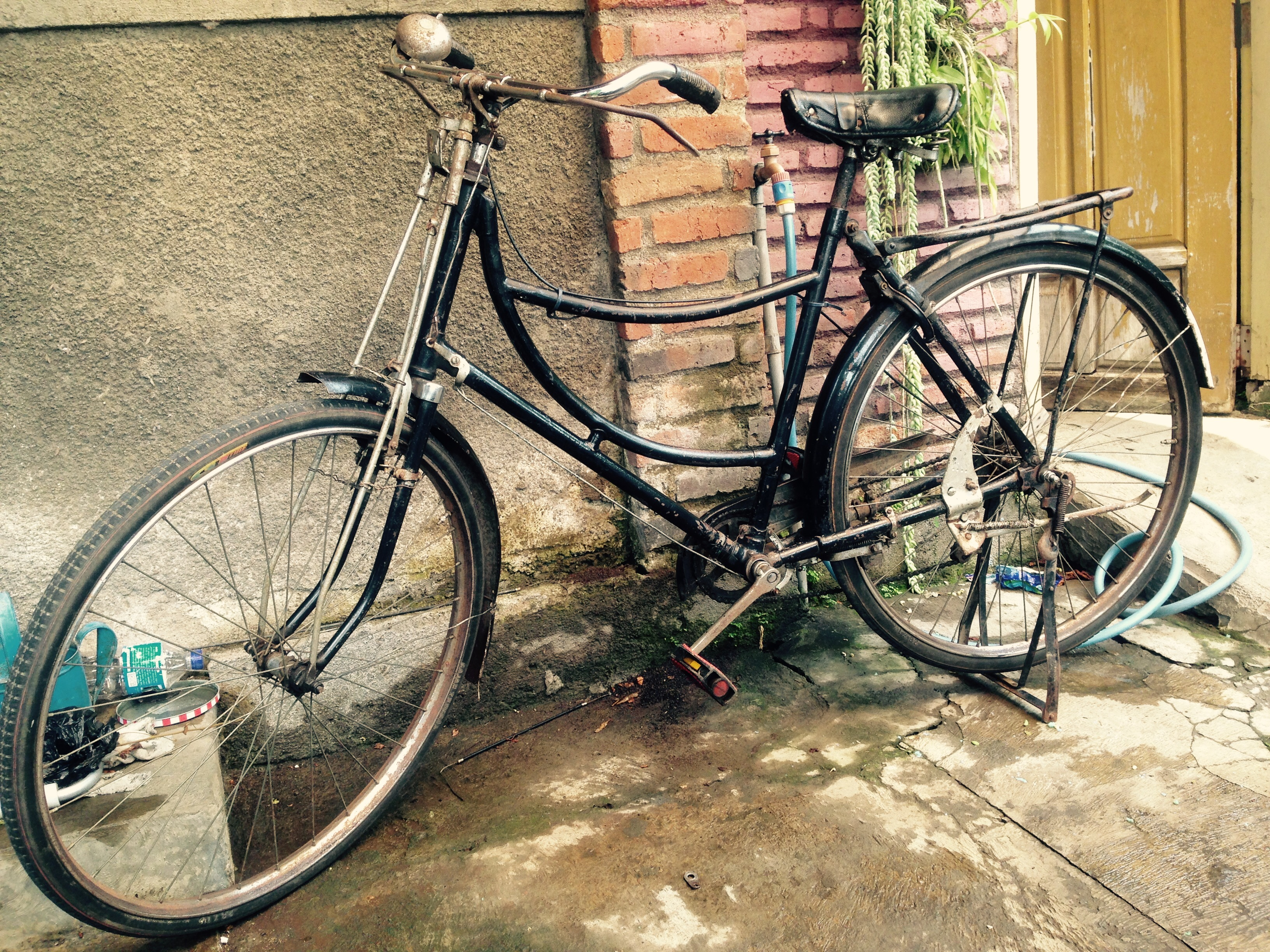 Old Phoenix Bicycle with Other Frame Variant (1970s) found on Indonesia village at year 2015, and still working properly